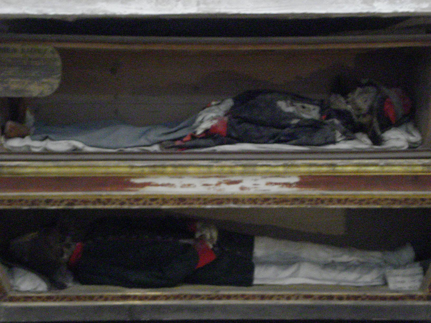 Professionalists' Corridor in Capuchins' Catacombs